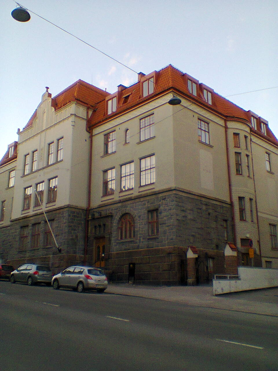 Turku commercial school's old art nouveau style building from south. The building was completed in 1908 and housed the school between 1908 and 1968. Aurakatu 11, Turku, Finland